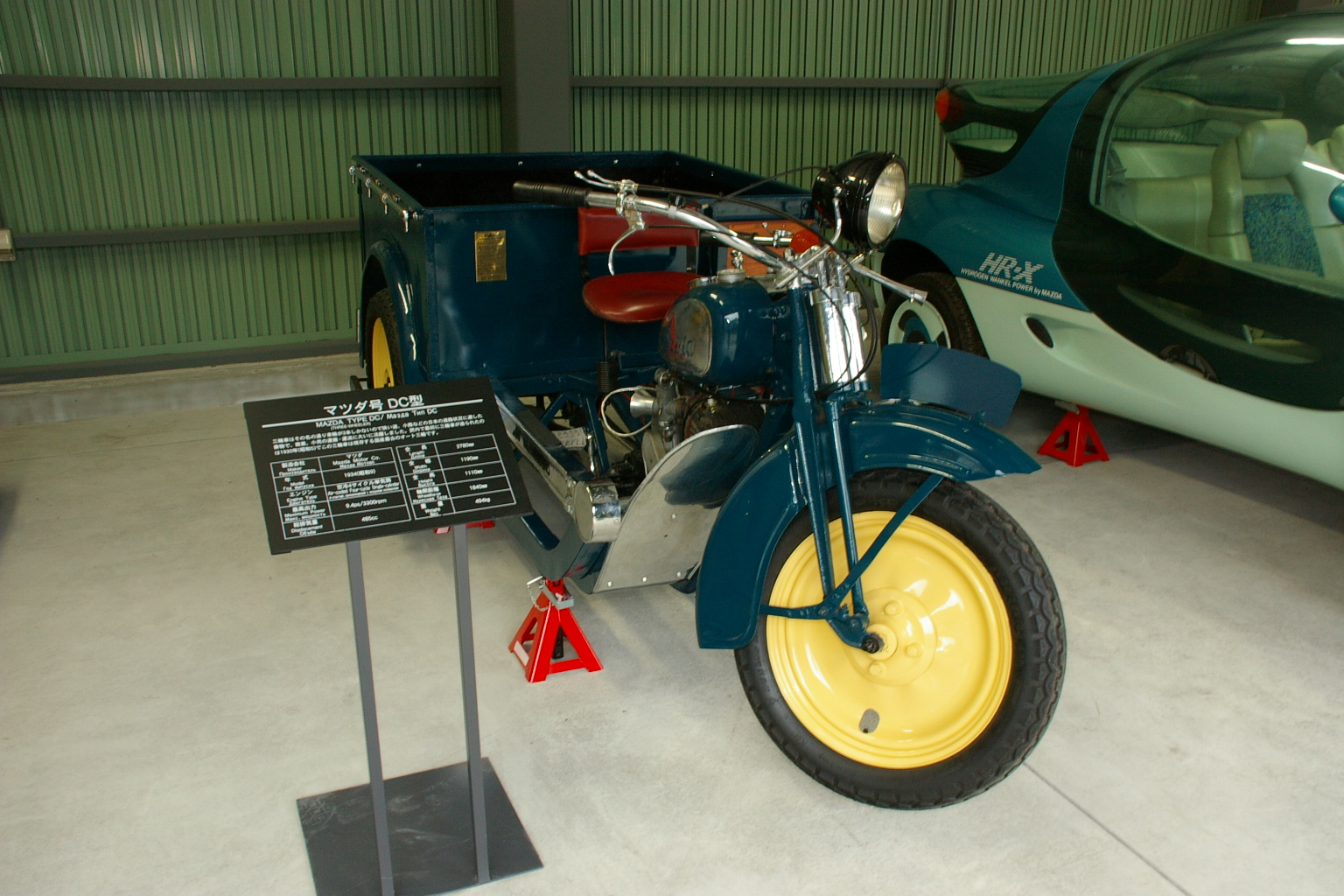 Mazda Type DC in Otaru synthesis museum.